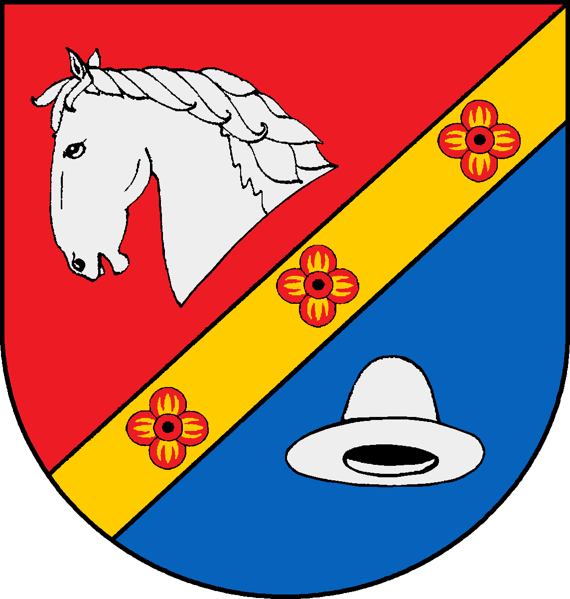 Coat of arms of the municipality Hattstedt in Schleswig-Holstein, Germany.